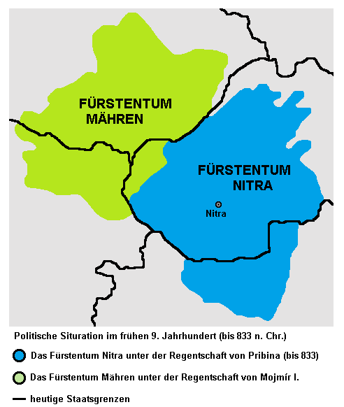 Principality of Nitra under Pribina and Principality of Moravia under Mojmir I, until 833 AD (English translation).